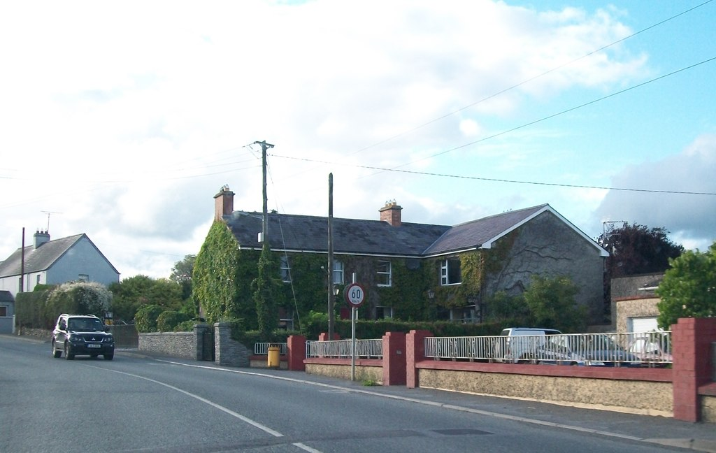 Ivy covered house on the R162 at Nobber, Co. Meath